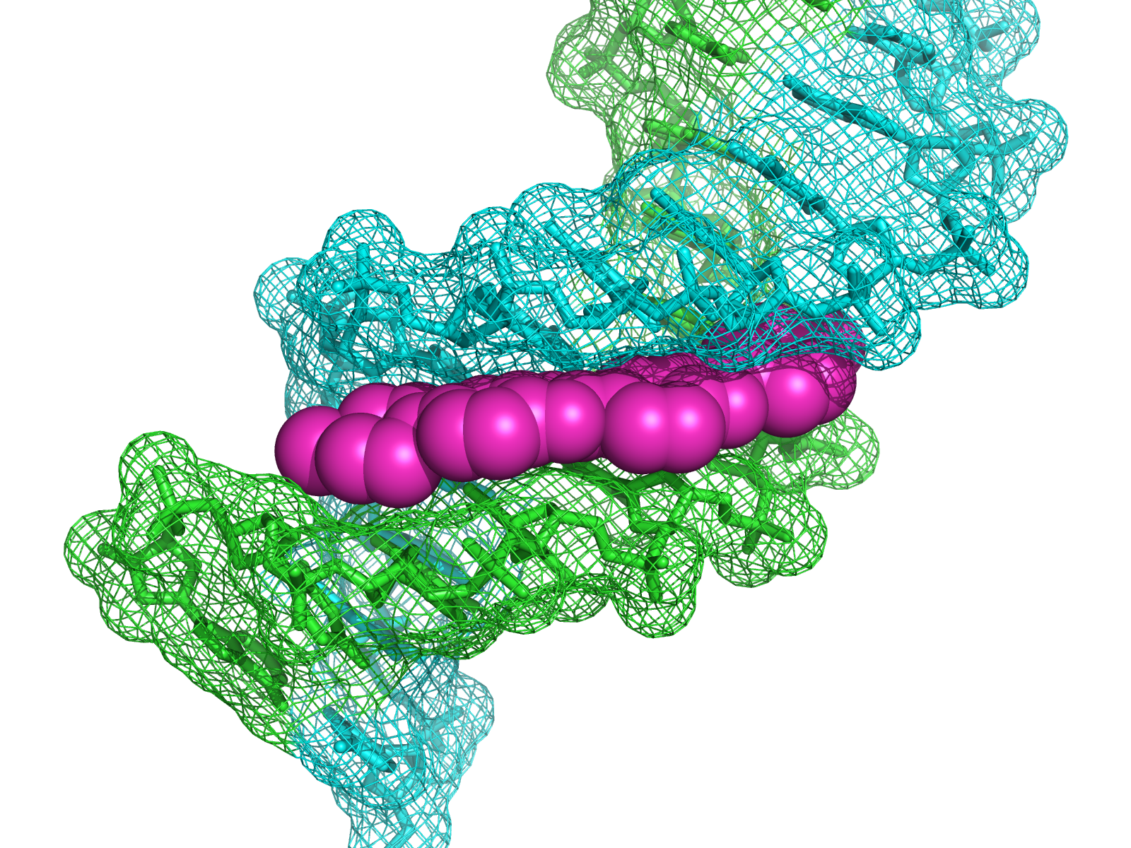 By Richard Wheeler (Zephyris) 2007. Hoechst 33258 bound to the minor groove of DNA. From PDB 264D, rendered in PyMOL.